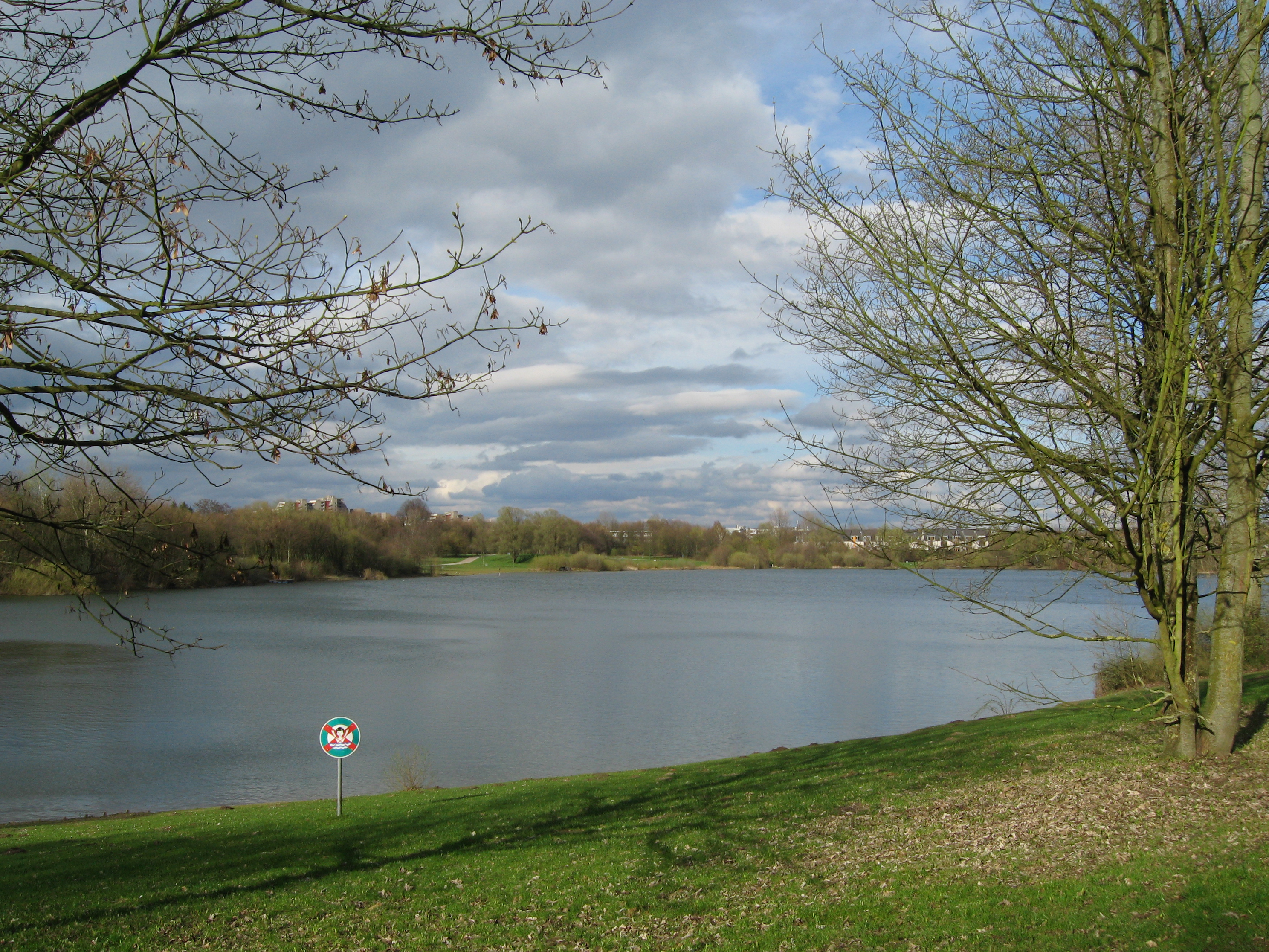 Park Volkardey with "Grüner See" ("green lake")at Ratingen-West